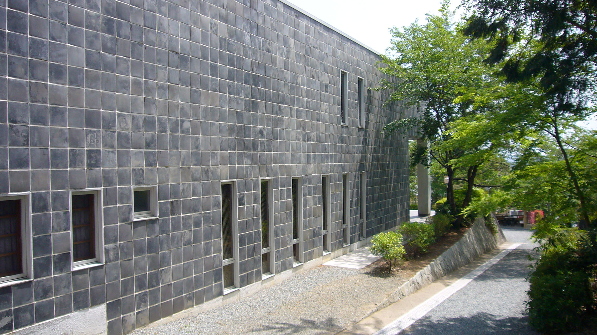 Yanagita Kunio Memorial Hall in Fukusaki, Hyogo, Japan